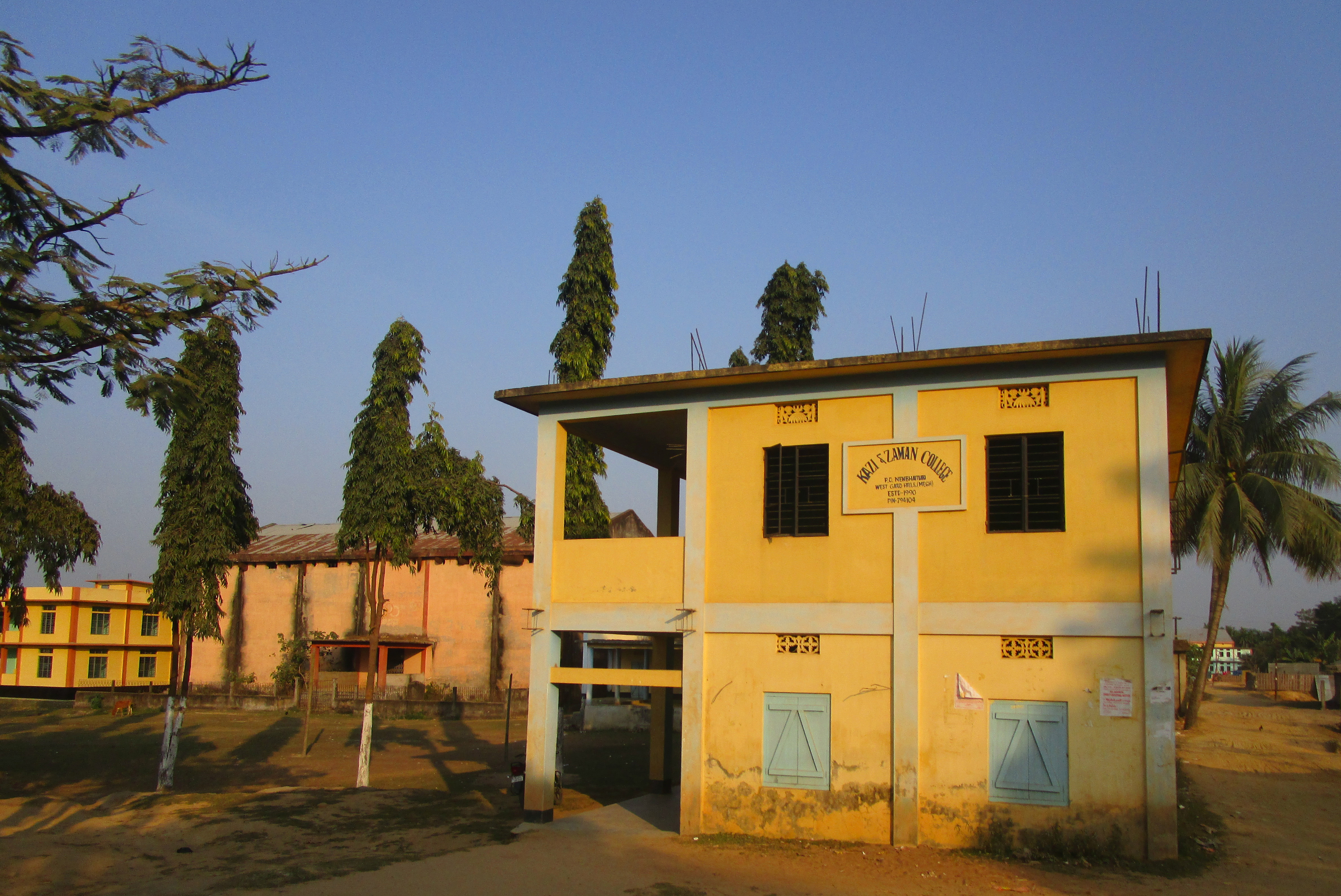 Kazi and Zaman College at New Bhaitbari, West Garo Hills district.